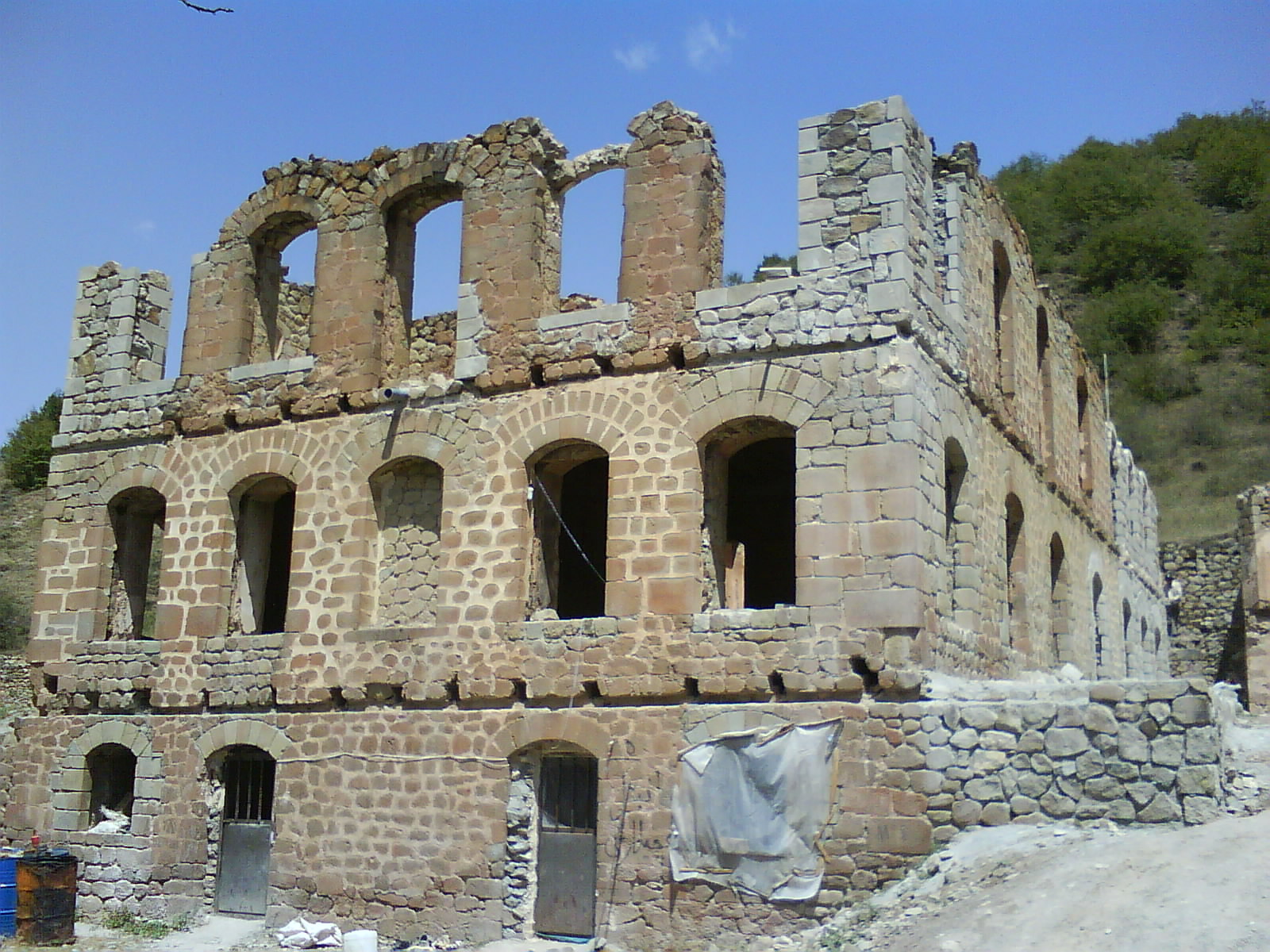 This is the remnants of a mansion, which was built in 1907 in the village of Aynaloo (آینالو)